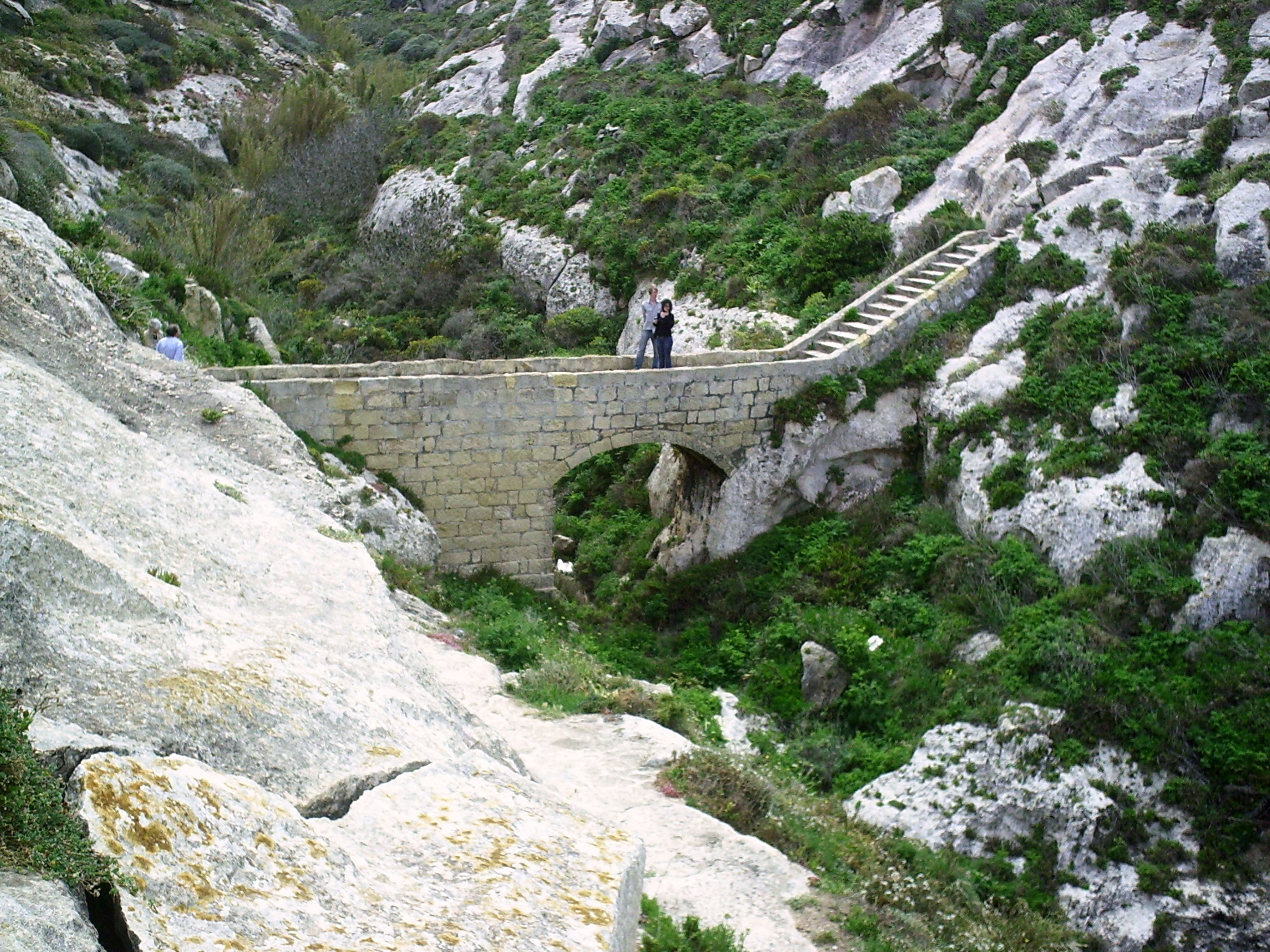 A photo showing the bridge found in Xlendi.